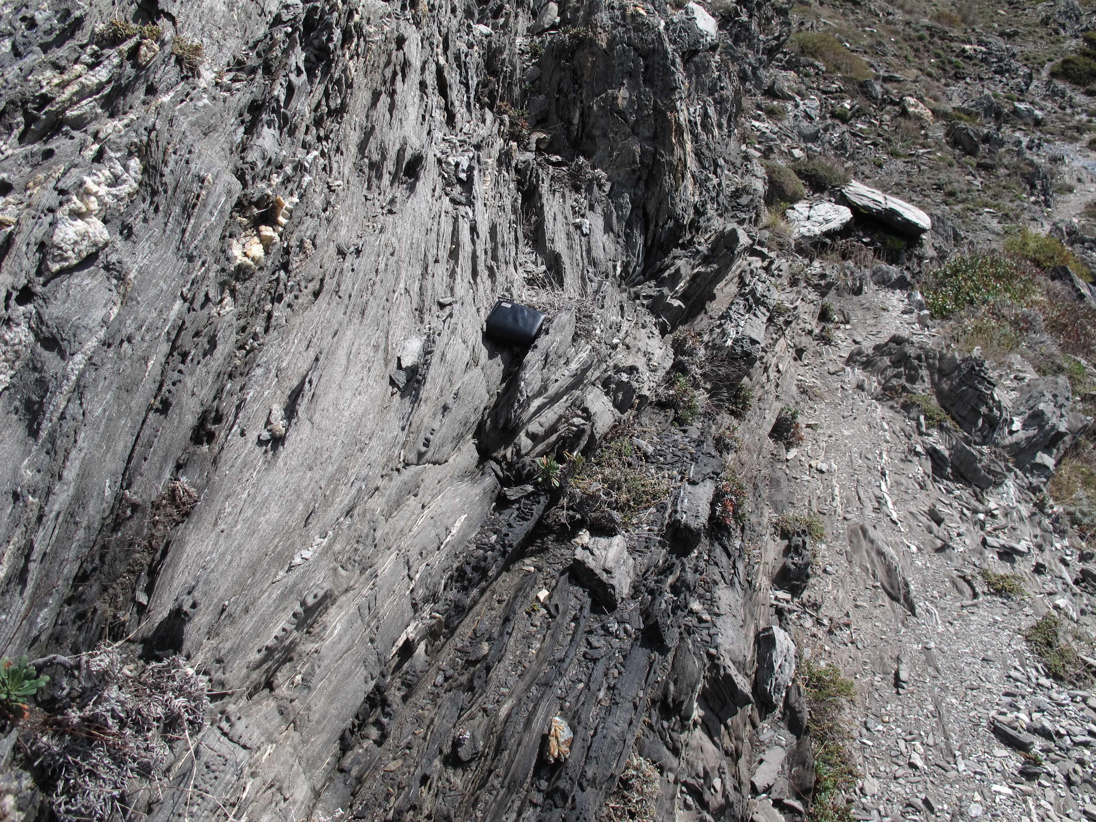 Margin of a large (ca. 20m thick) dextral sense shear zone with near horizontal lineation and steep dip to northeast. Near Cala Portixol, Cap de Creus area, Catalunya. Camera case for scale - length 12 cm